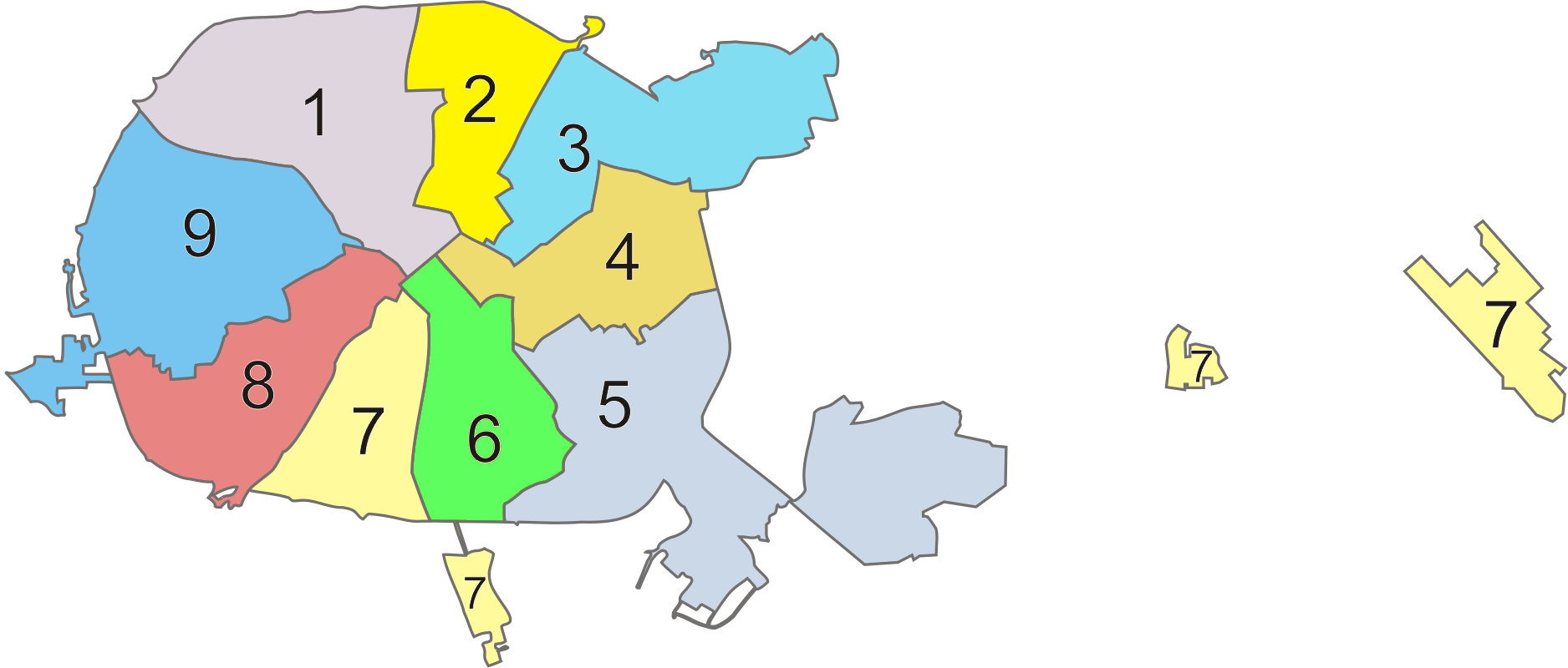 ==City districts of Minsk, Belarus. Administrative division of Minsk.